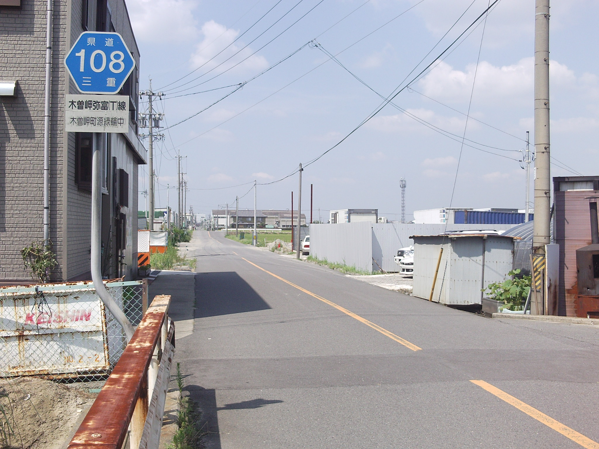 Mie prefectural road No.108 in Genrokuwaju, Kisosaki-cho, Kuwana-gun, Mie.